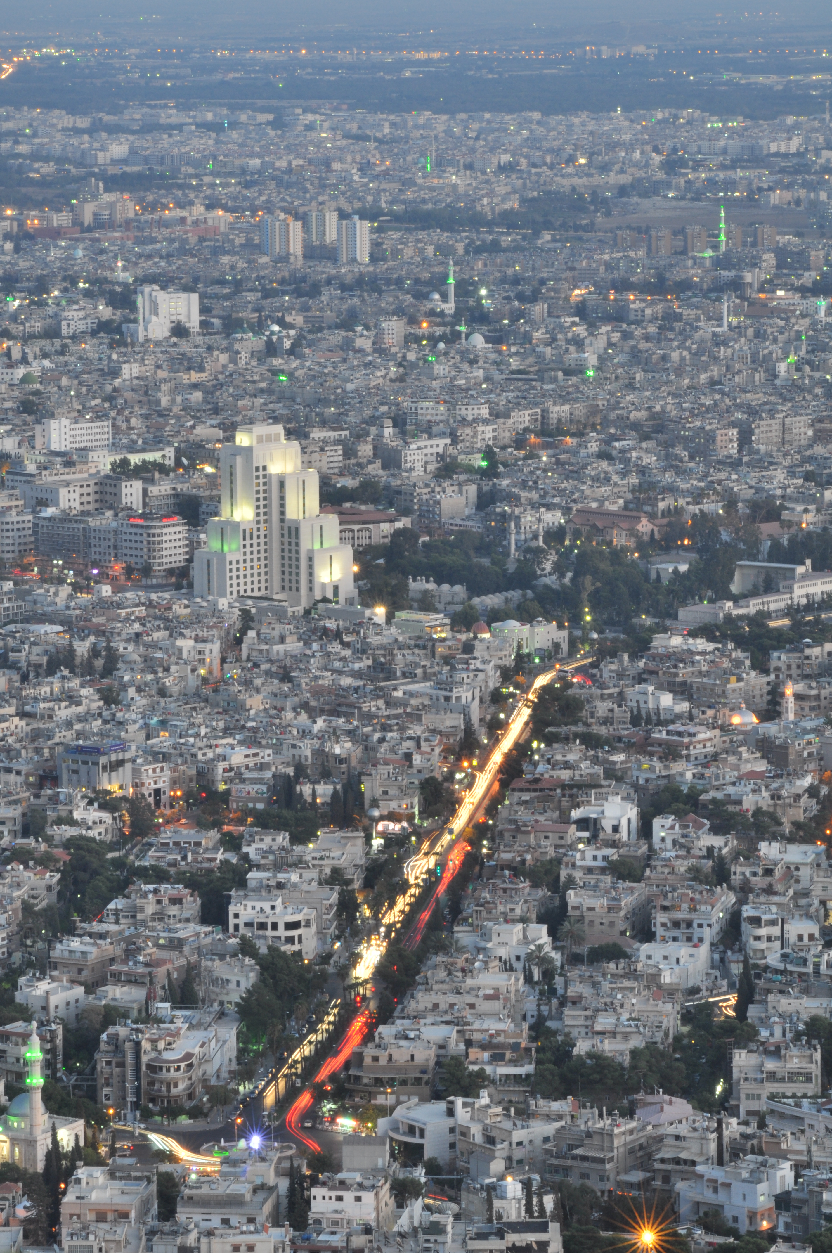 Damascus general view at night